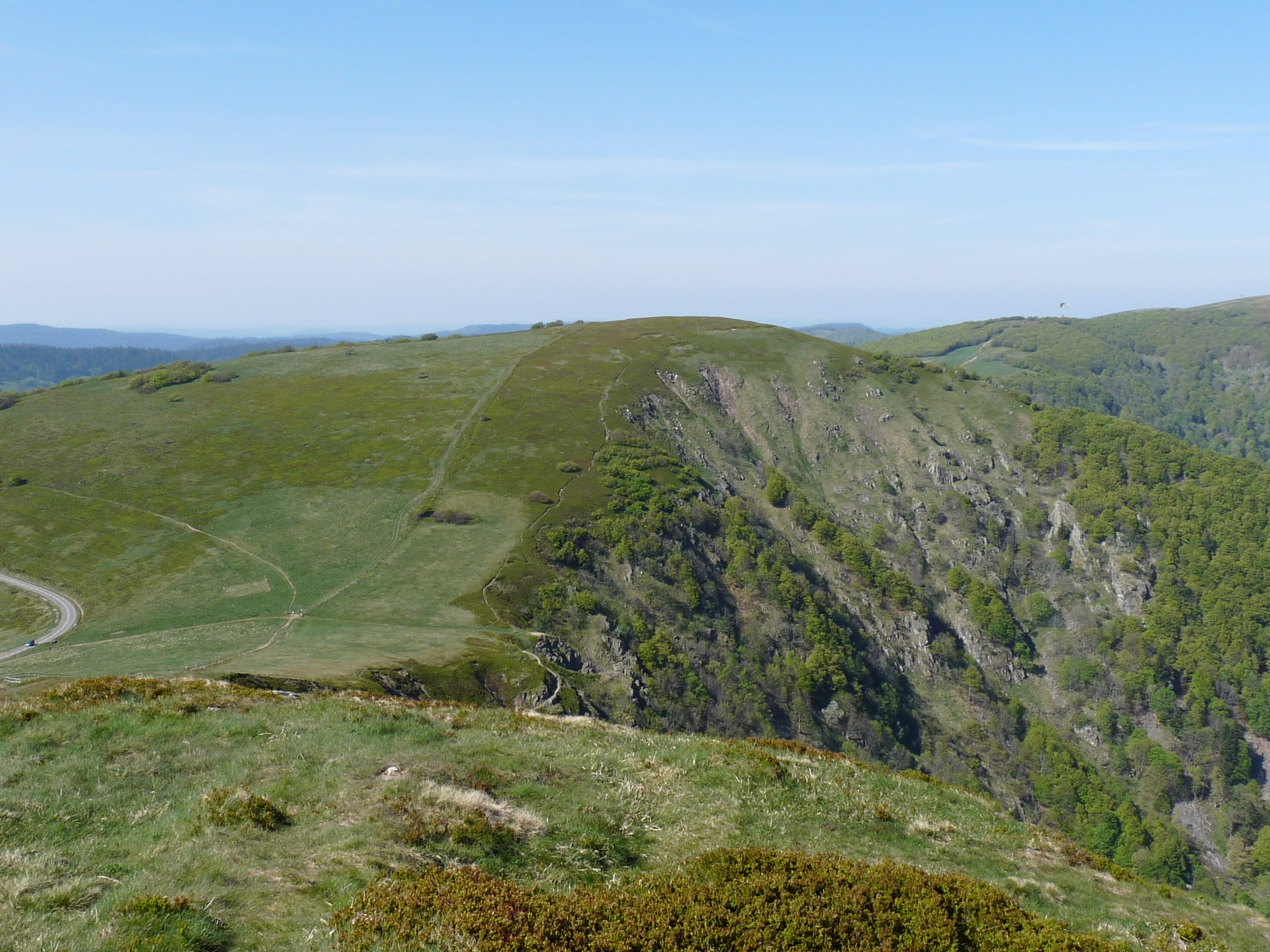 Rainkopf, Vosges, France